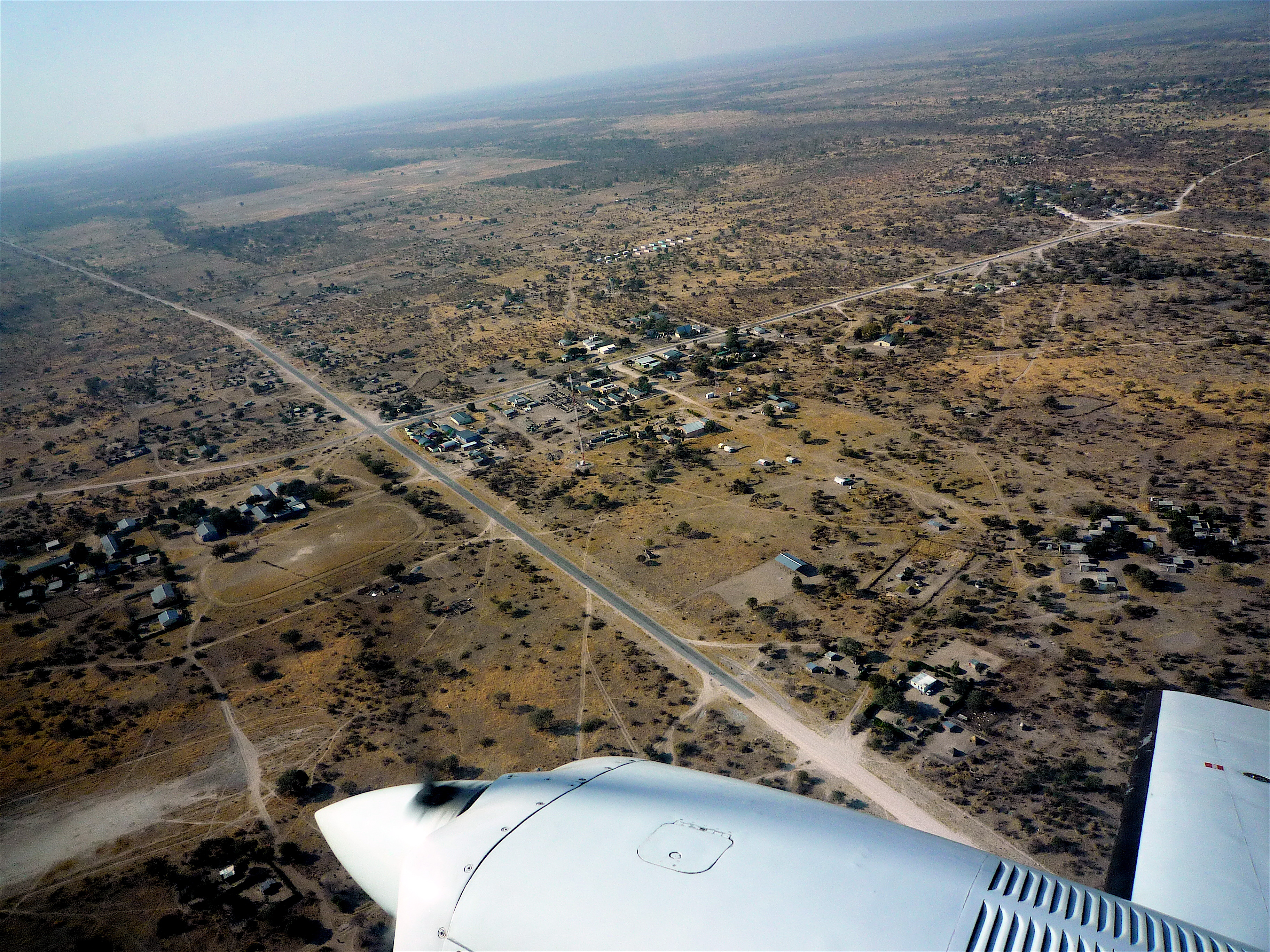 Another view of Tsumkwe, North East Namibia, near the border with Botswana, token from Cessna 402c